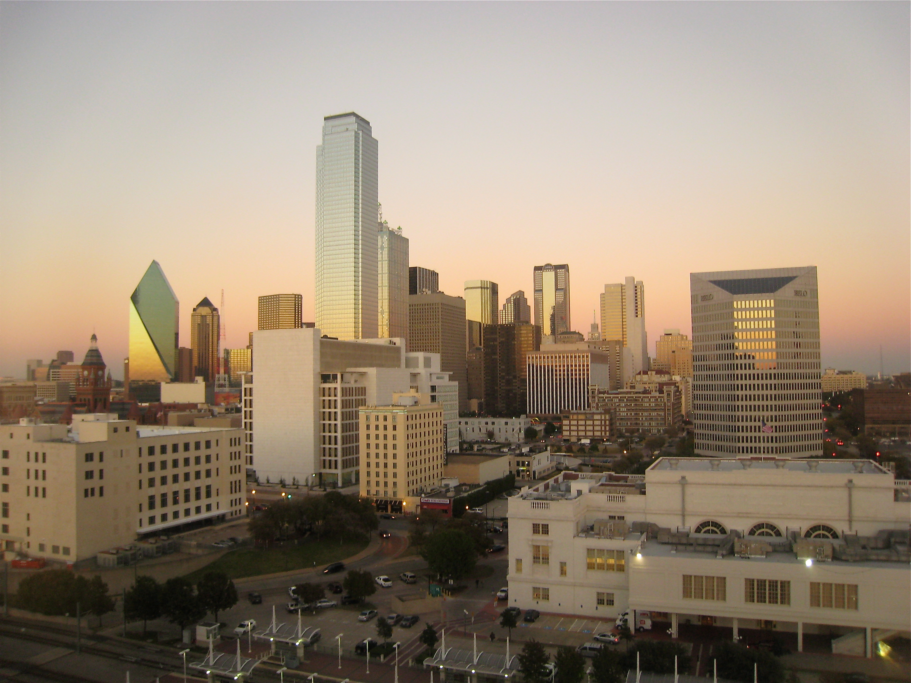 The skyline of Dallas, Texas, as seen from the twelfth floor of the Hyatt Regency Hotel in Dallas.